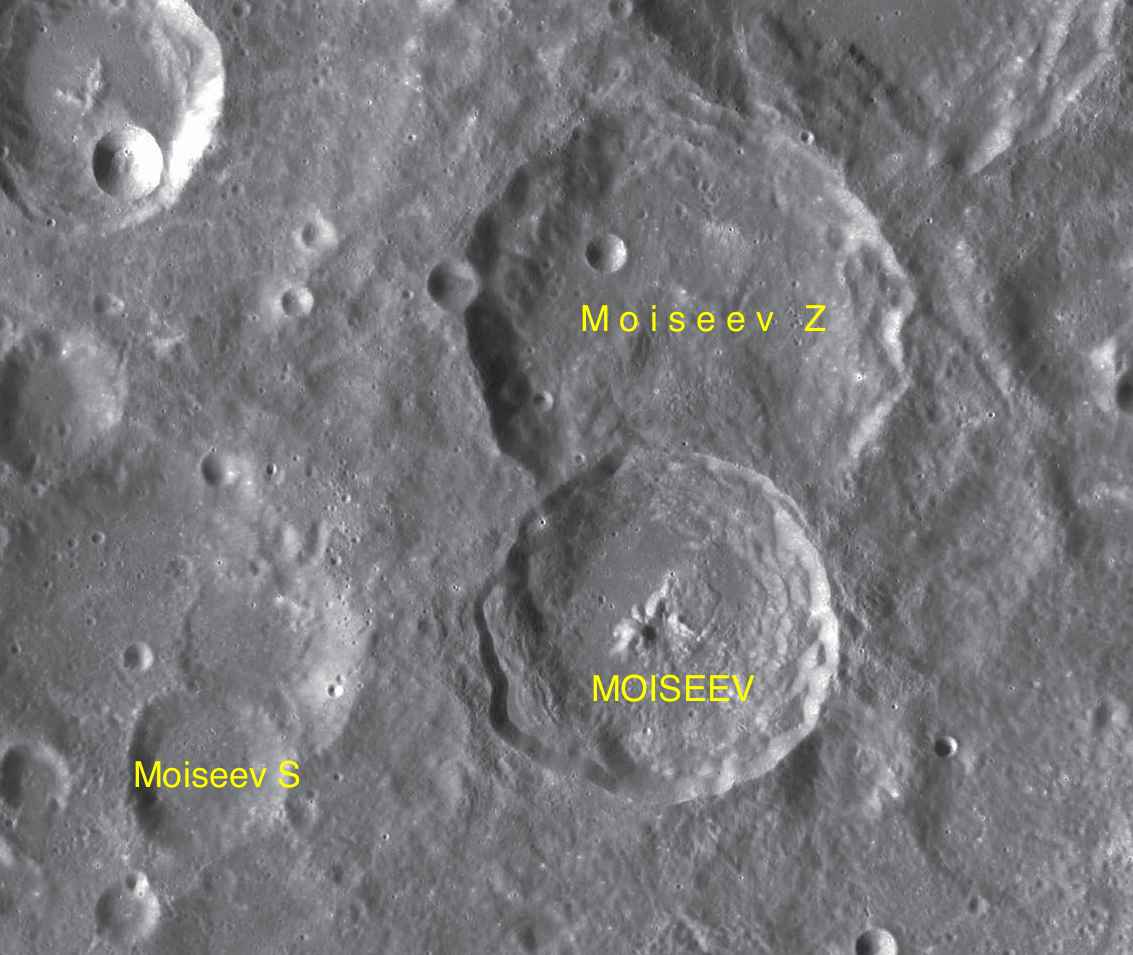 Part of the chart LAC-64 used for the presentation